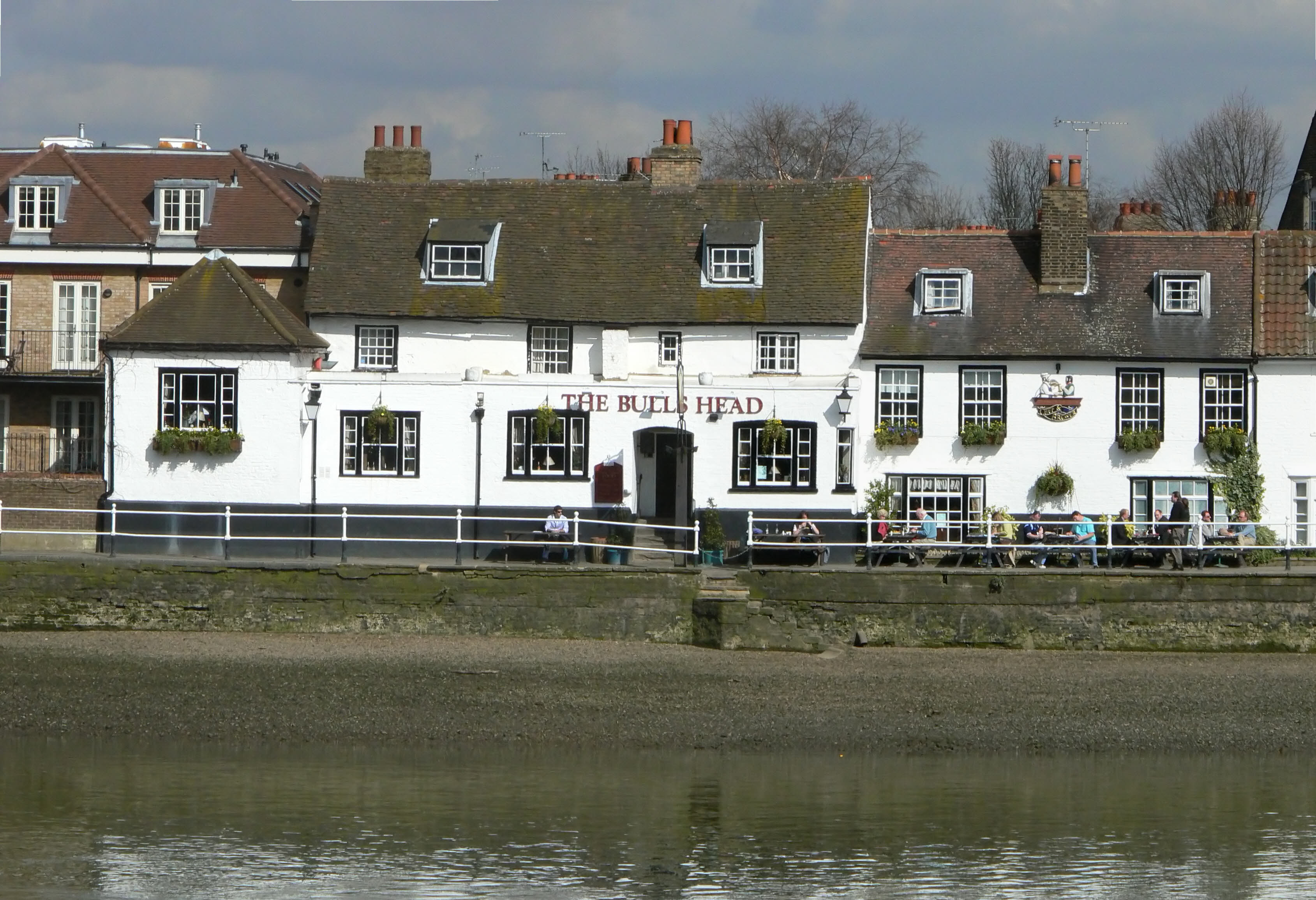 The Bulls Head, a riverside pub, Strand-on-the-Green, Chiswick. This image was on Wikipedia and is being moved by its author.